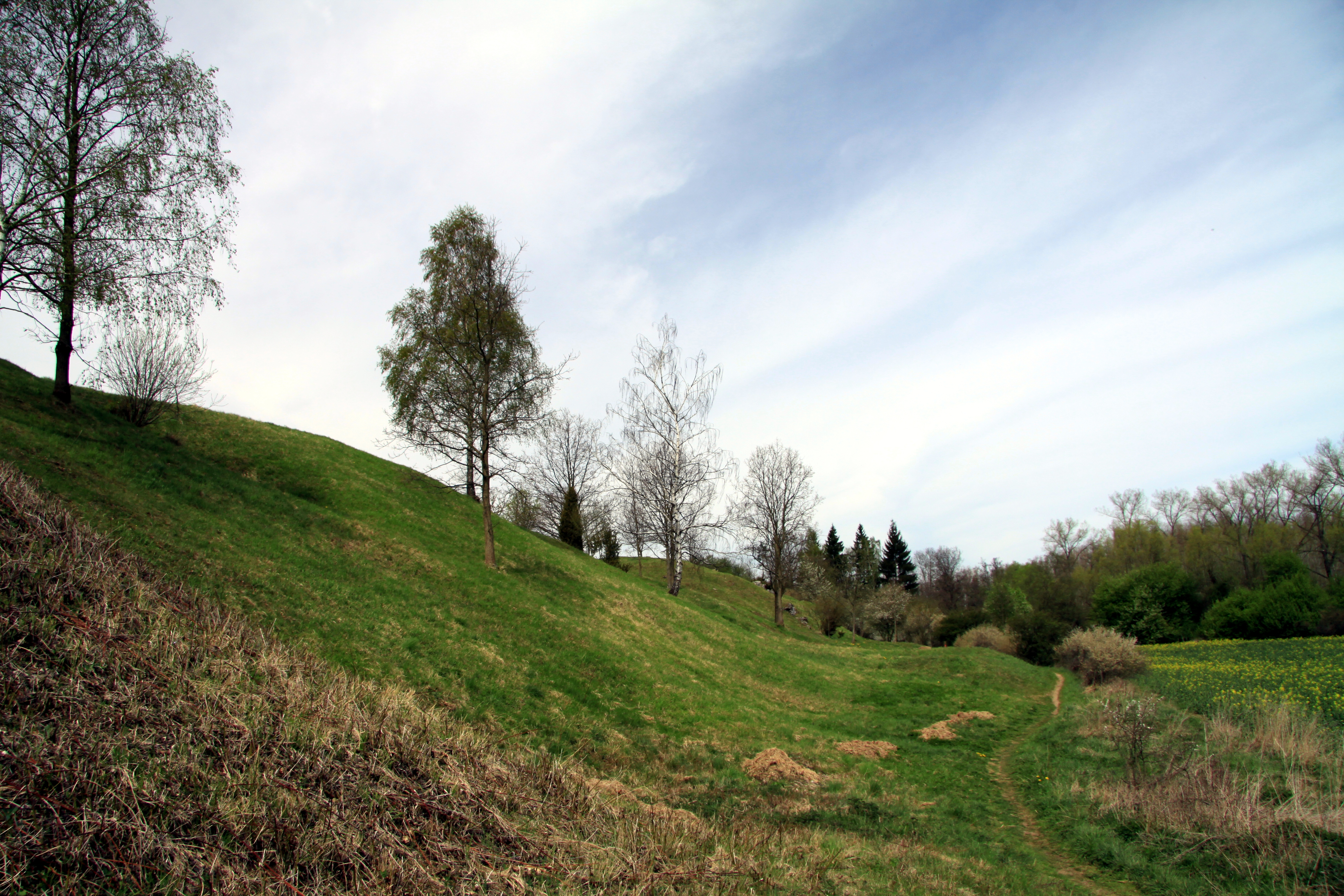 Natural monument Kozlovská stráň near Horažďovice in Strakonice District, Czech Republic Project: Chráněná území.